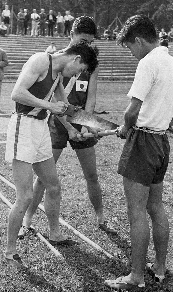 Pole vault jumpers Shuhei Nishida, Kiyoshi Adachi and Sueo Oe of Japan cut a pole to adjust ahead of the Berlin Olympic circa August 1936 in Berlin, Germany.